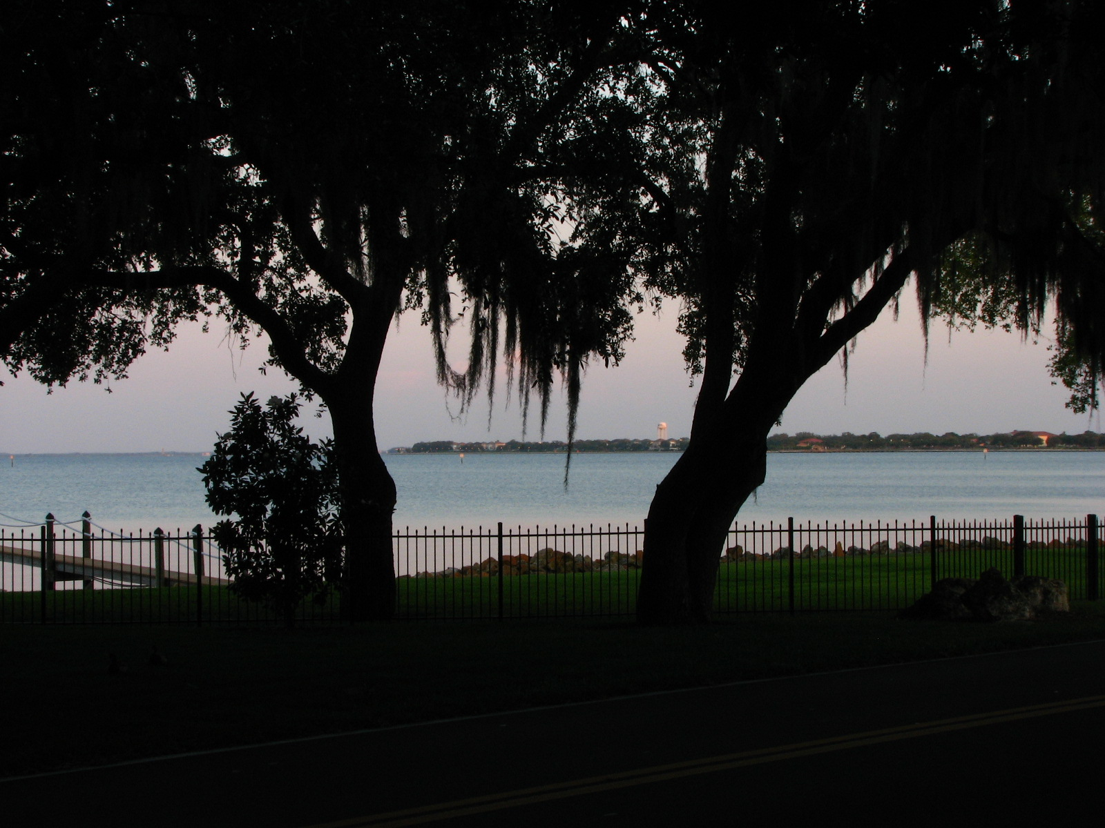 Photo taken from Bayshore Blvd. in the Ballast Point Neighborhood overlooking the Hillsborough Bay with MacDill Air Force Base in the background.